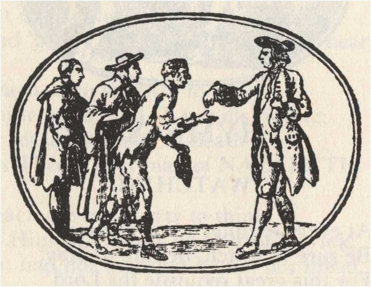 Smart_Hymn21_Generosity